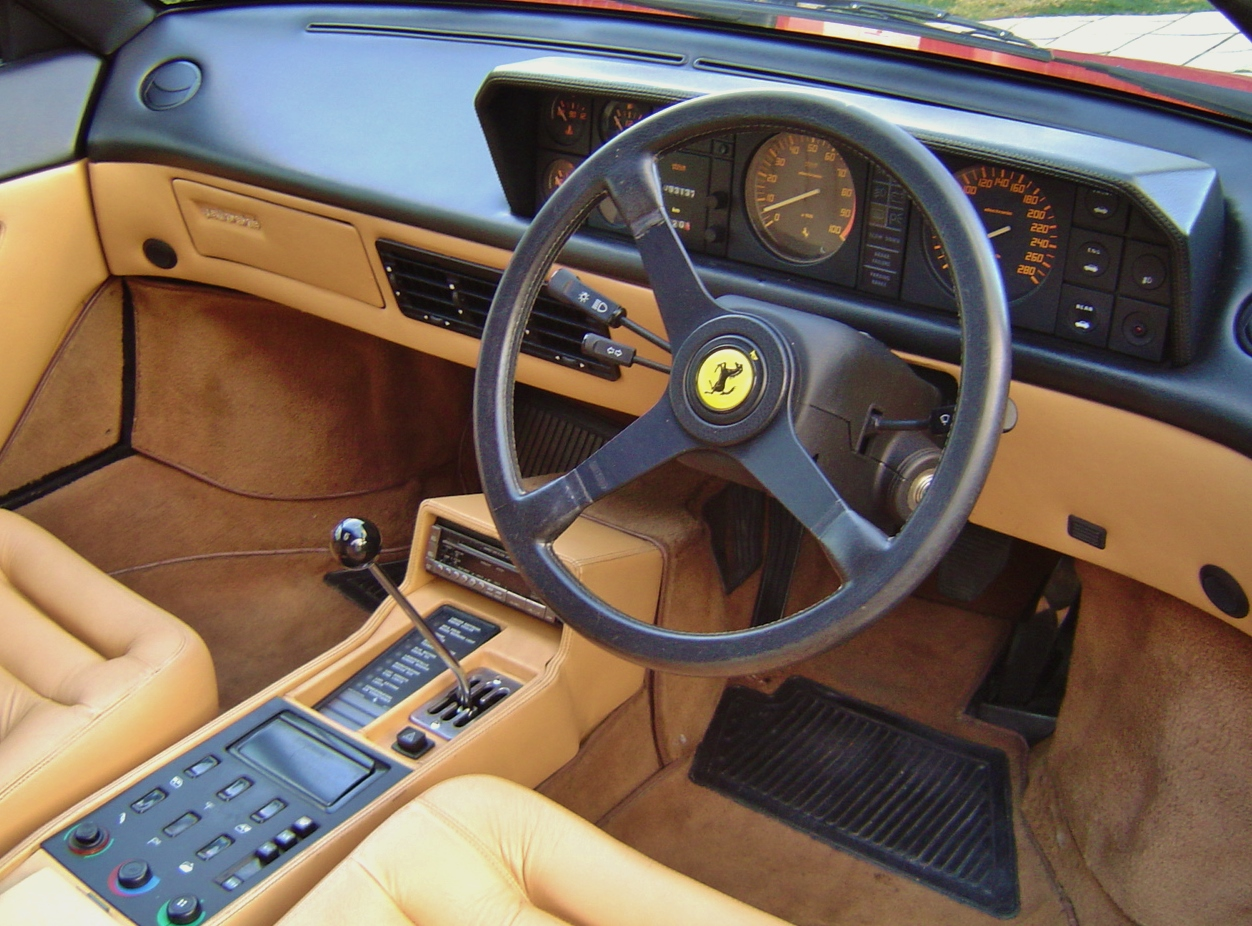 Ferrari Mondial 3.2 Coupe 1988, front-interior view